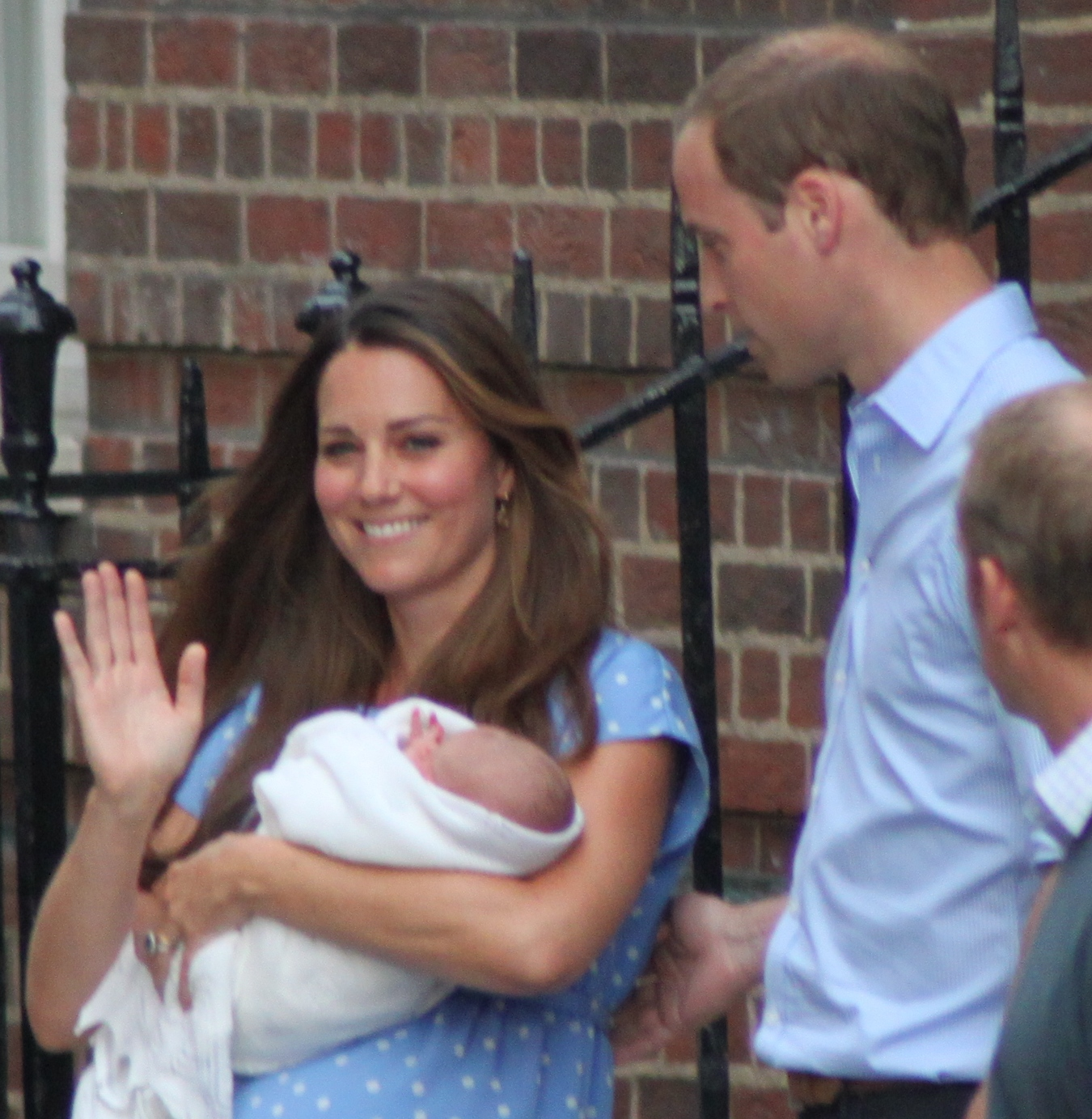 The Duke and Duchess of Cambridge with Prince George outside the Lindo Wing of St Mary's Hospital